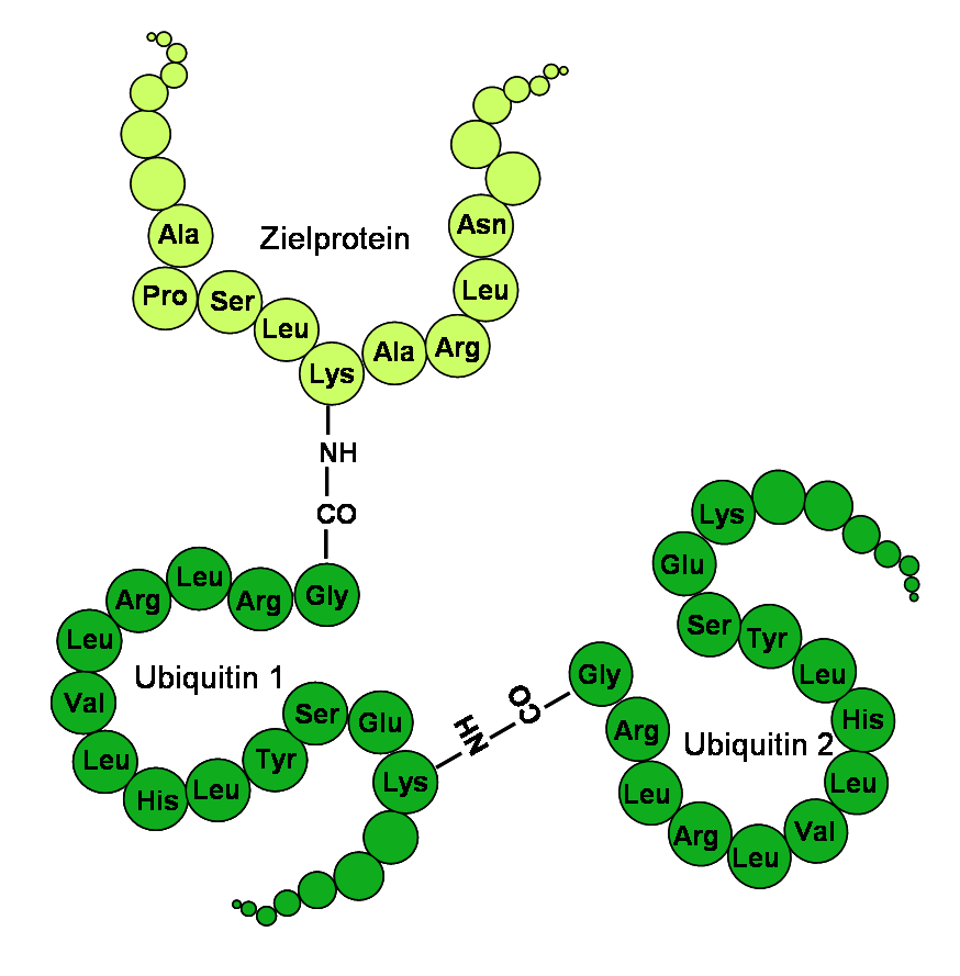 Example of a K63-linked double ubiquitination of a Target Protein